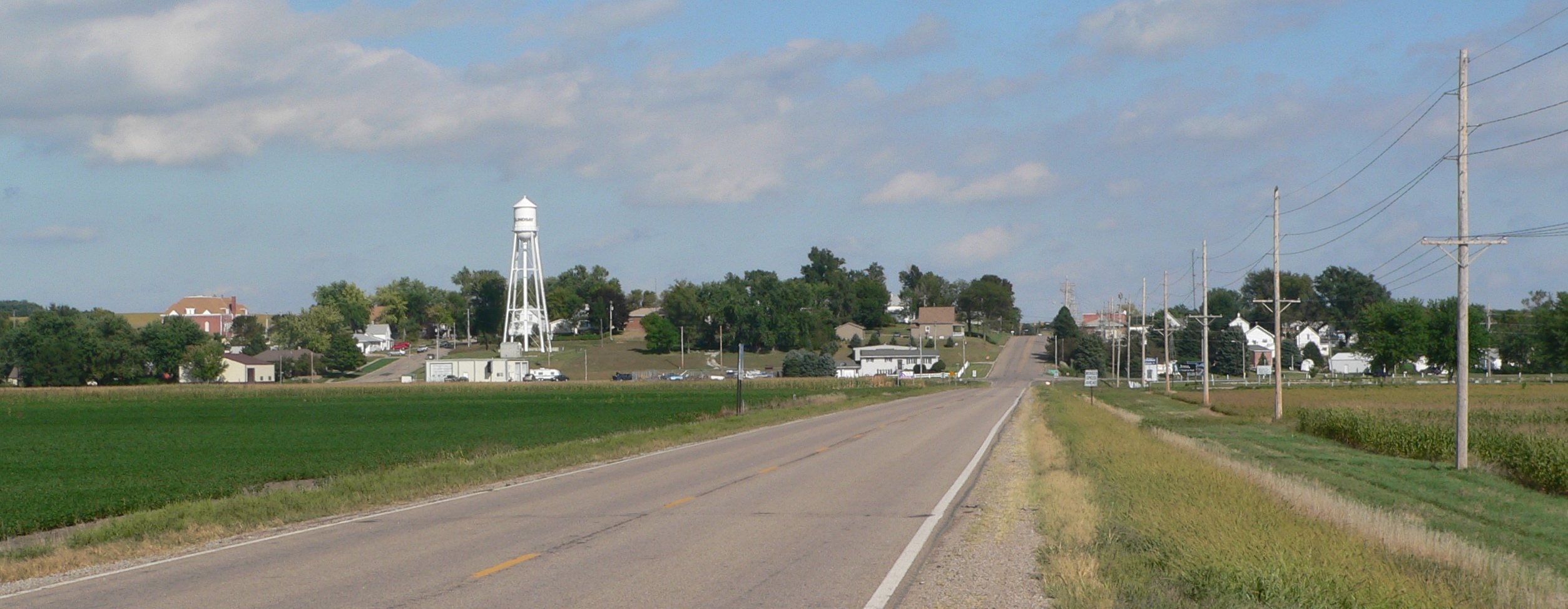 Lindsay, Nebraska; seen from the west, along Nebraska Highway 91.